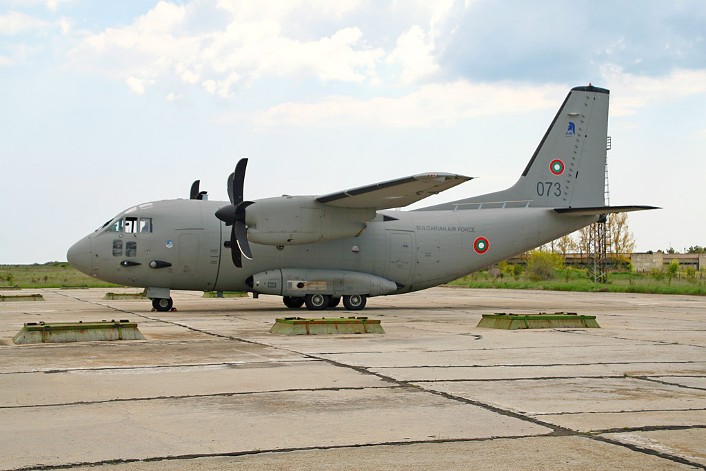 Bulgarian military transport aircraft C-27J Spartan